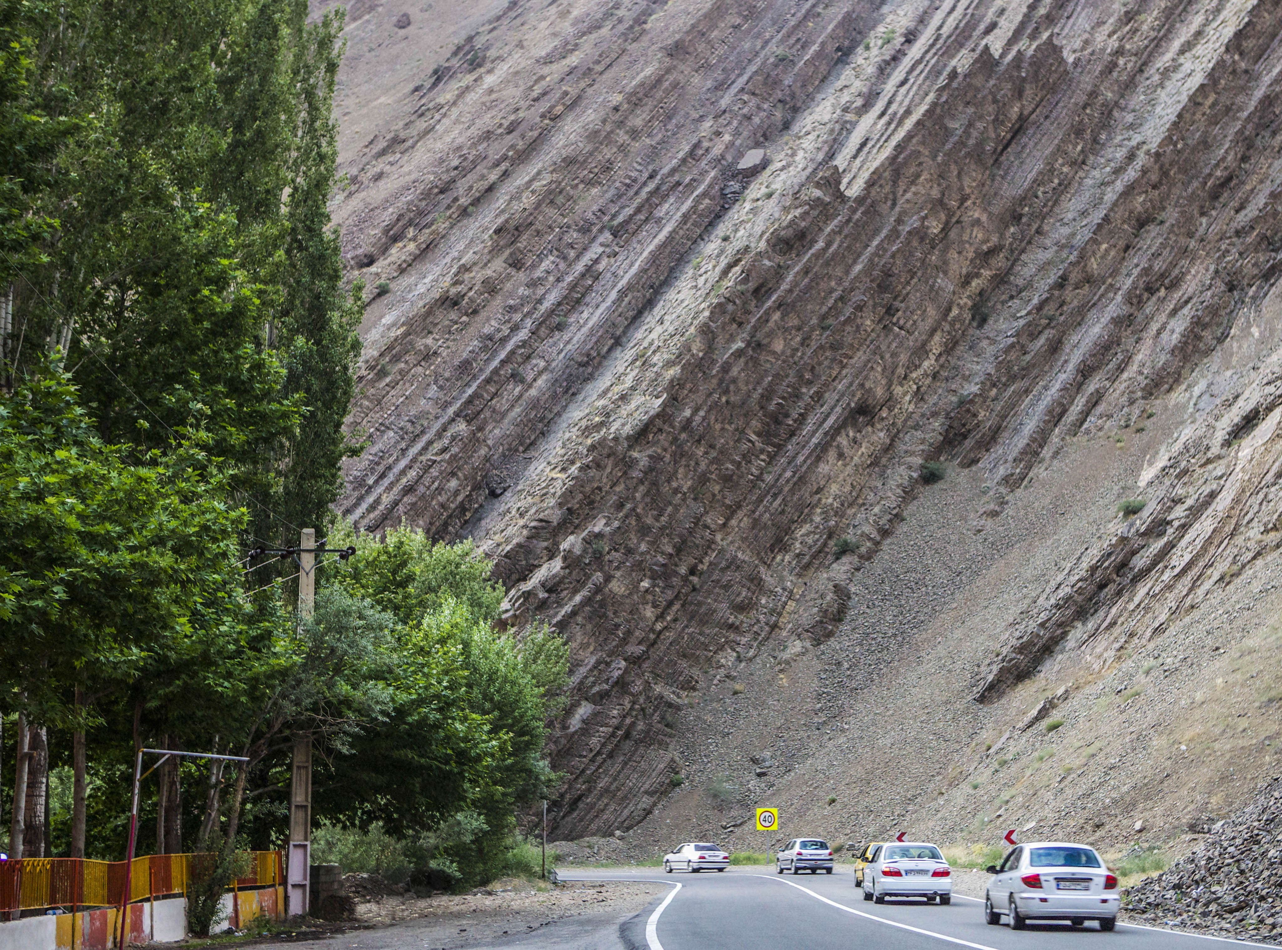 Chalus road, Iran